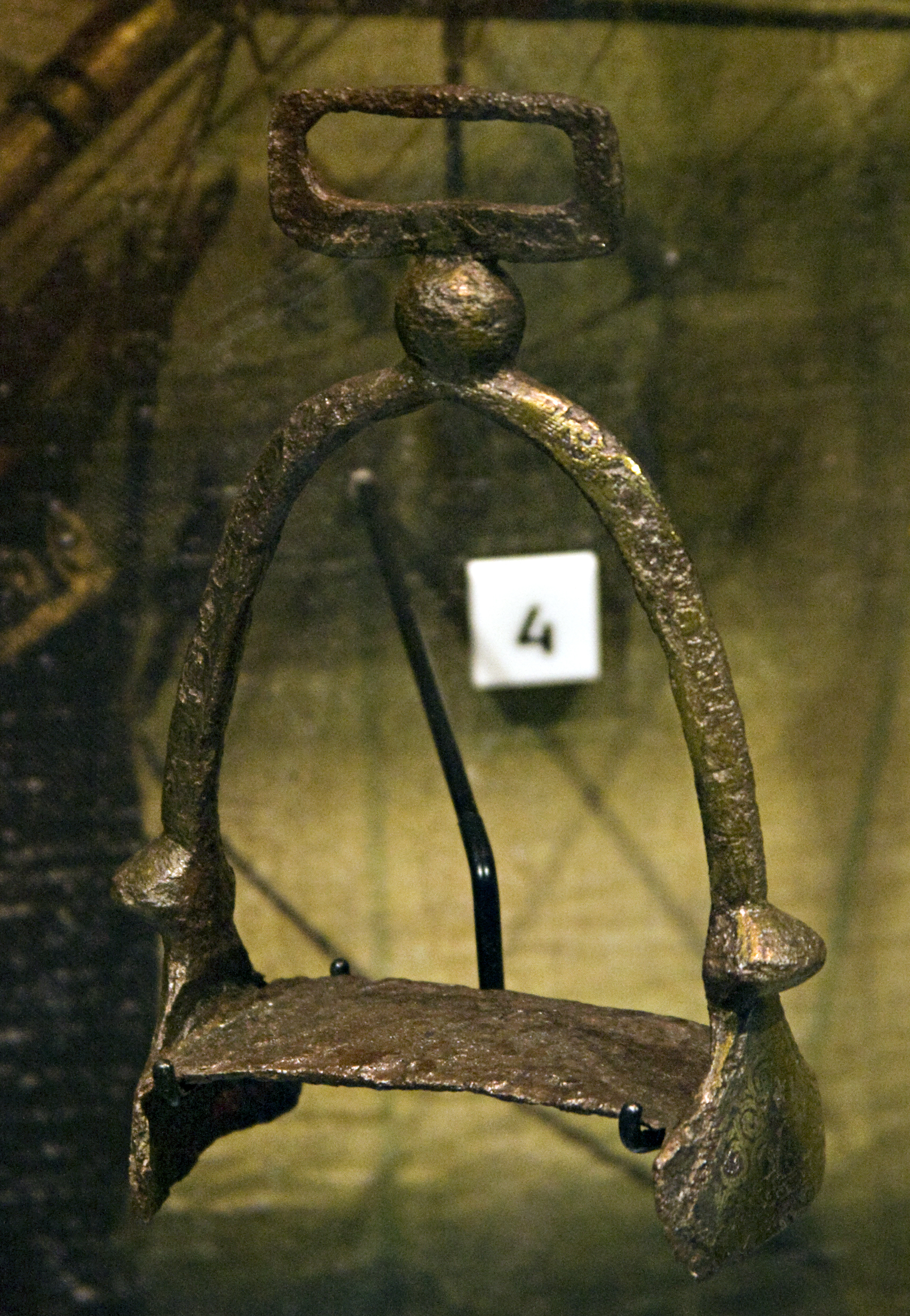 10th century stirrup said to have been found in the River Thames; derived from File:Toweroflondonstirrup10thcentury.jpg by Ealdgyth: cropped for relevance